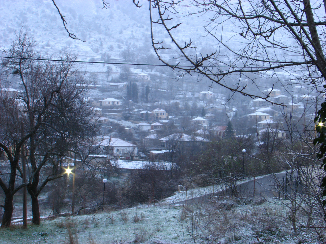 A photo of dawn in the village of Voshtina (Pogoniani) from the area known as Tsifliki. The first snow of winter.